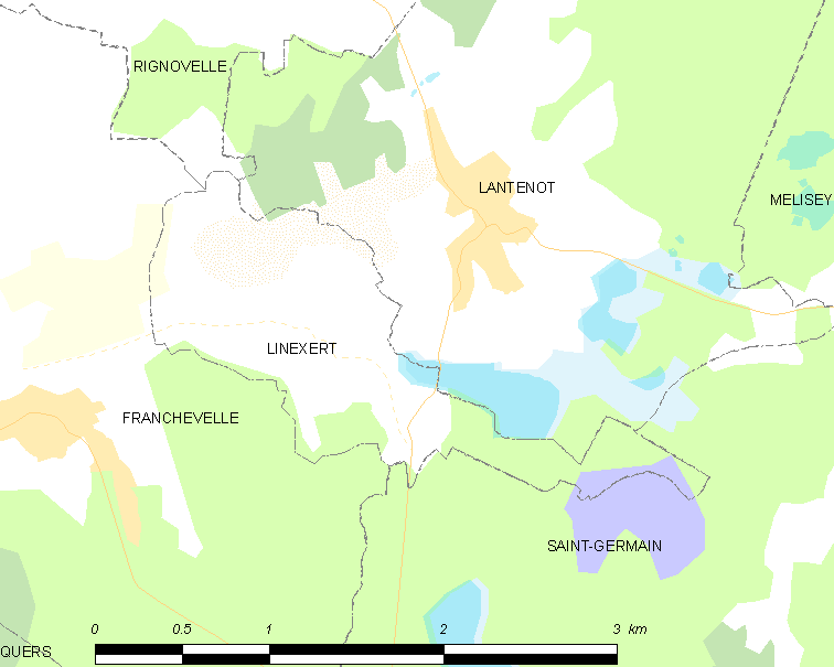 Map of French municipality